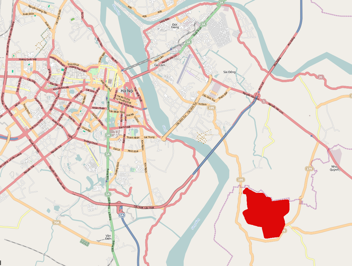 Map showing the location of "Ecopark" compared to Hanoi. Map from OpenStreetMap. Shape approximated from and by analyzing building area on Bing Maps.